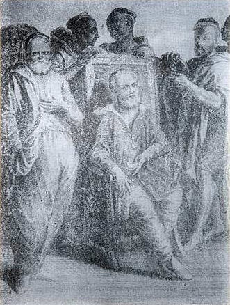 Ambassador Admiral Abdellah Ben Aicha 1685